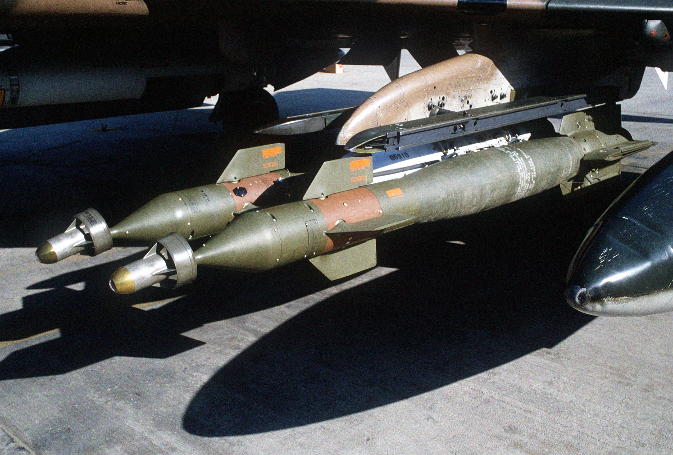 Two GBU-12 Paveway II laser guided bombs mounted beneath the wing of a U.S. Air Force McDonnell Douglas F-4E Phantom II fighter from the 51st Tactical Fighter Wing, based at Osan Air Base, South Korea, on 5 February 1982.